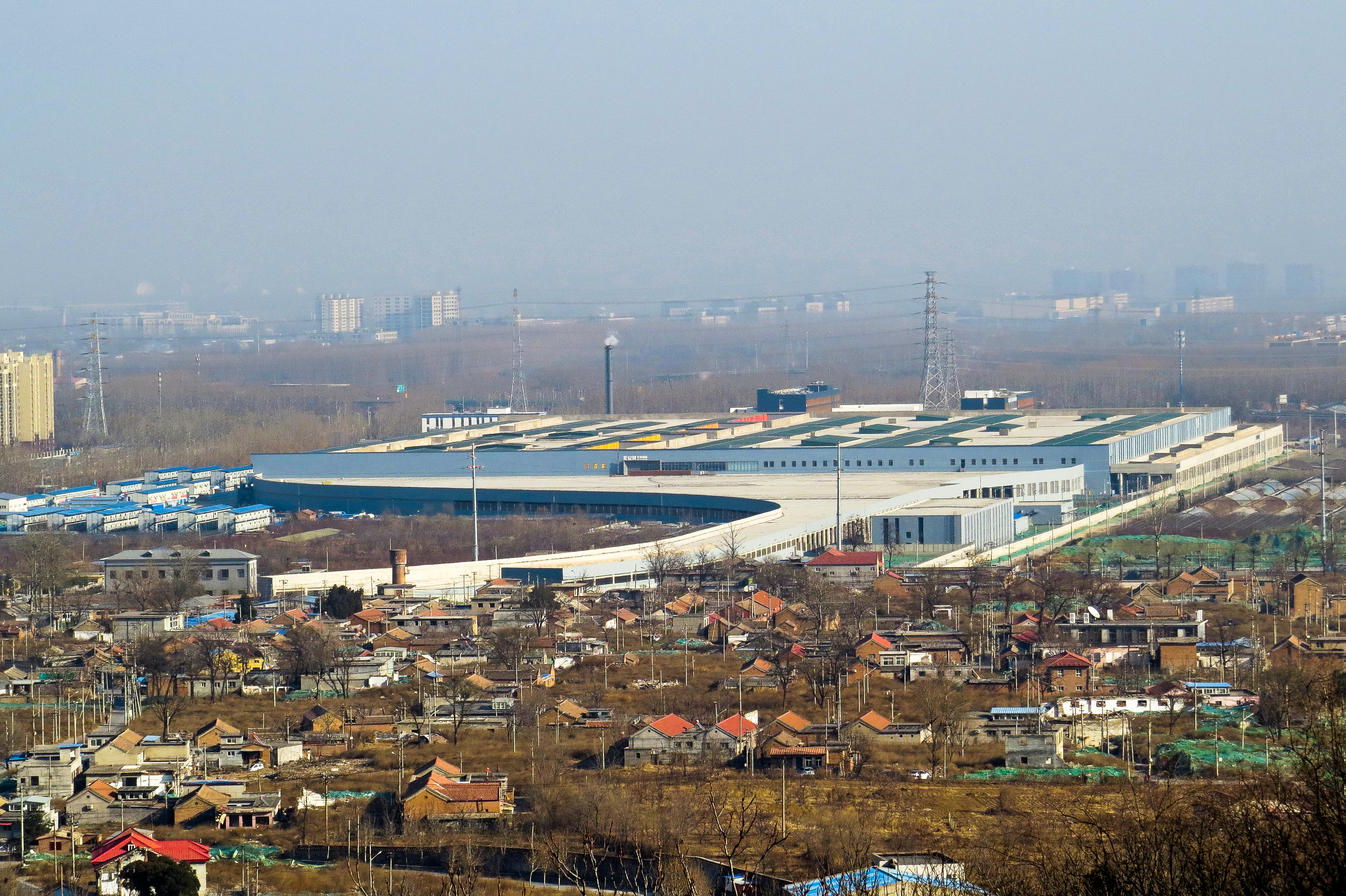 Taken from the watchtower of Jardin Bussière.